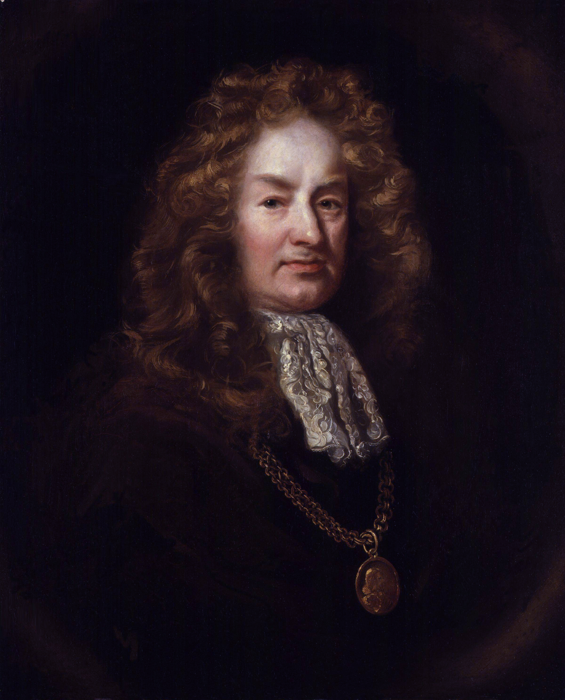 All images in this batch have been confirmed as author died before 1939 according to the official death date listed by the NPG.